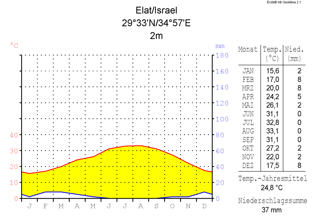 climate chart in the format by Walter and Lieth, metric, °Celsisus and millimeters, made with Geoklima 2.1